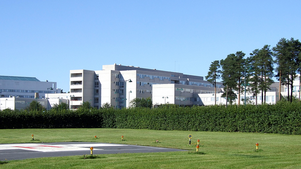 Oulu University Hospital buildings in Kontinkangas, Oulu, Finland. The heliport of the hospital (EFHO) in the foreground.